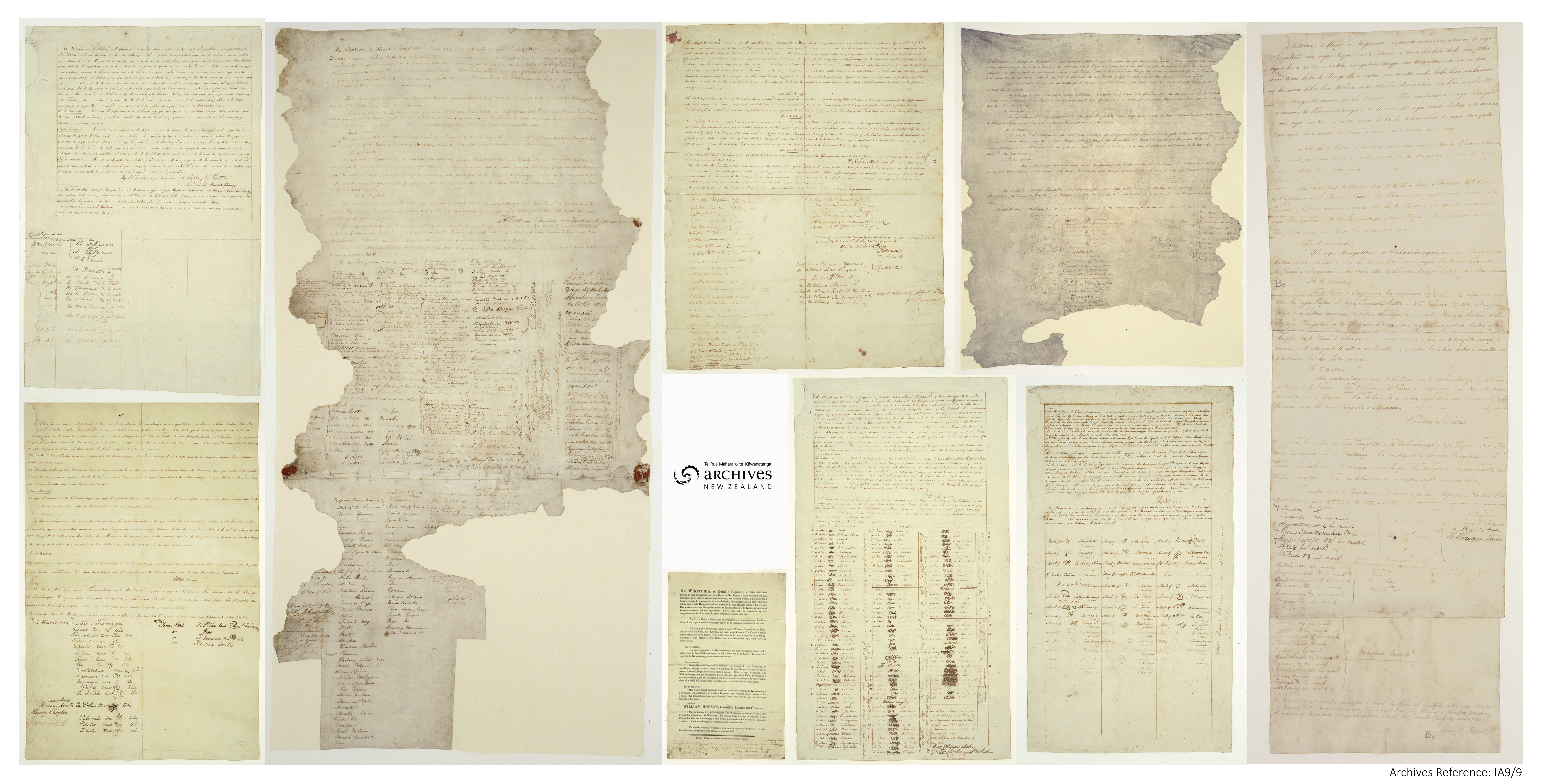 Te Tiriti o Waitangi - The Treaty of Waitangi is not a single large sheet of paper but a group of nine documents: seven on paper and two on parchment. Together they represent an agreement drawn up between representatives of the British Crown on the one hand and representatives of Māori iwi and hapū on the other. Named after the place in the Bay of Islands where it was first signed on 6 February 1840, the Treaty was also signed at locations around the country over a seven-month period. Our Te Tiriti o Waitangi eBook (pdf, 209kb: provides an introduction to the Treaty, further online resources, a chronology of events, and transcripts of the document, including the English version as signed, the Māori version as signed, and a modern English translation of the Māori version. You can view and download free high resolution images of the nine sheets from our website ( or from the Archives New Zealand Treaty Flickr album. For a day-to-day account of the signing of the Treaty, check out our Treaty Day-by-Day Flickr album: This image combines the separate nine sheets into one image. Archives Reference: IA9/9 Sheets 1-9 Material from Archives New Zealand